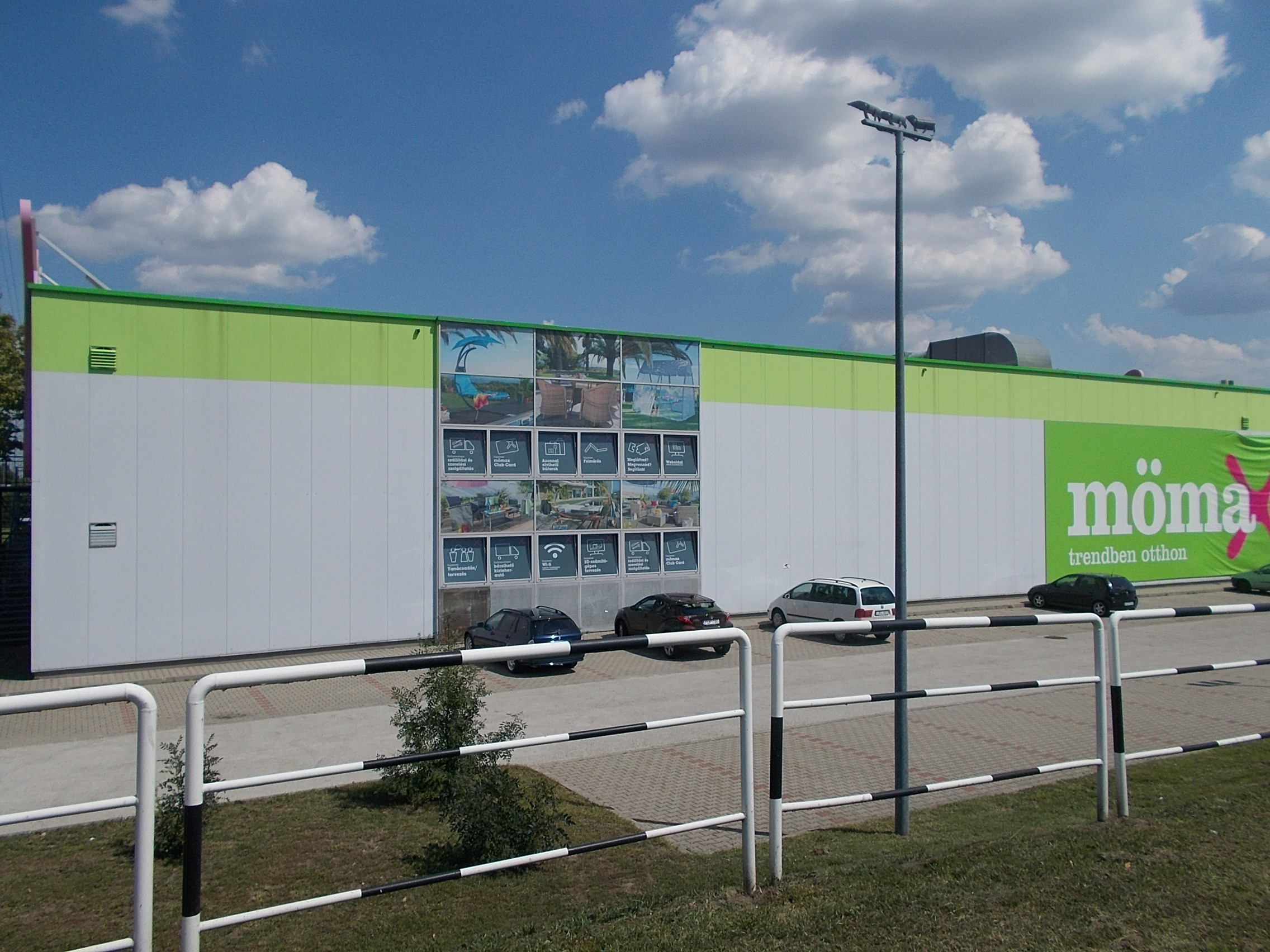 Mömax Győr from Route 81 (Fehérvári út) overpass bridge. - Nádorváros neighborhood, Győr-Moson-Sopron County, Hungary.